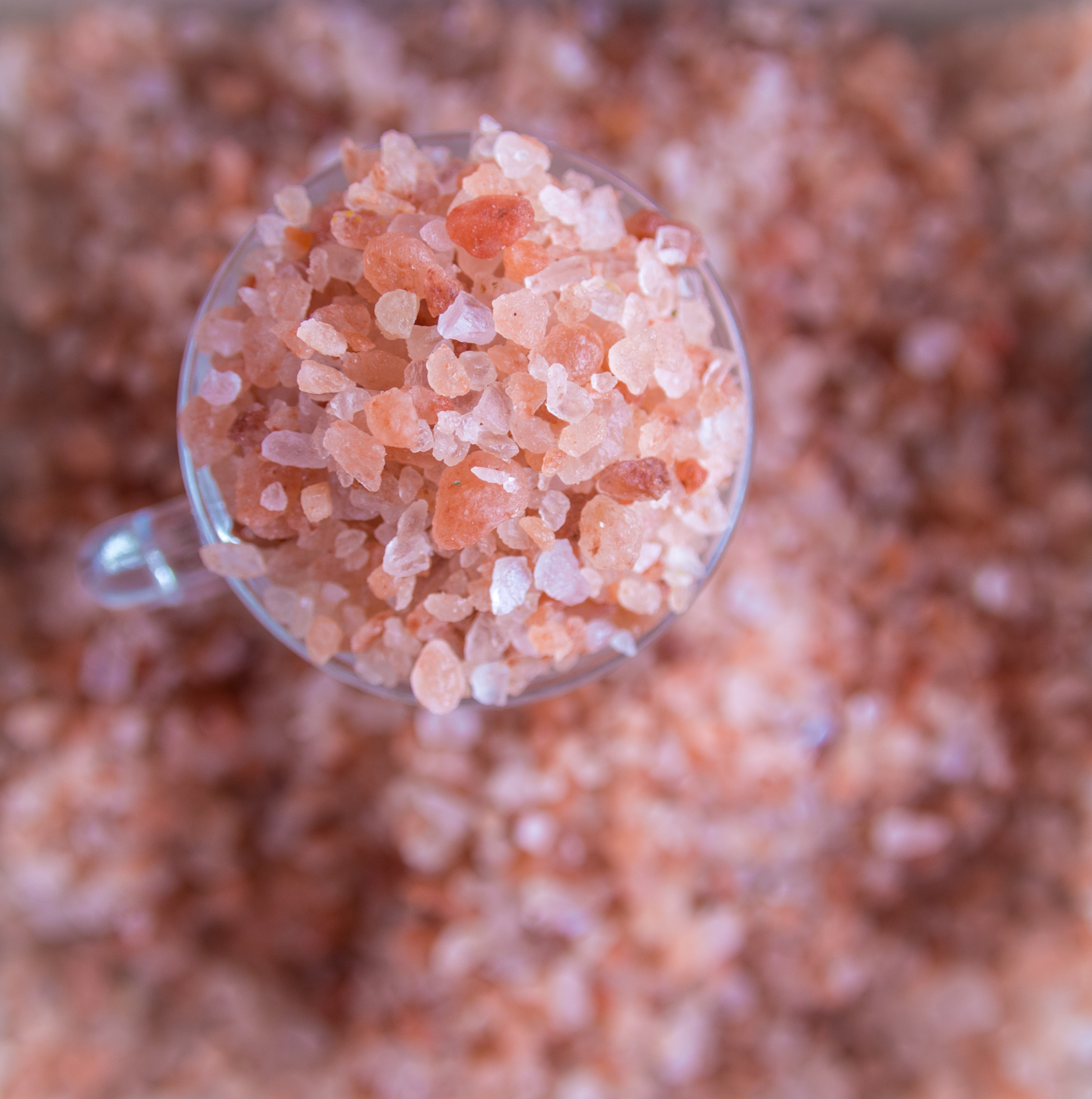 Himalayan salt of Saúde flea market, São Paulo, Brazil